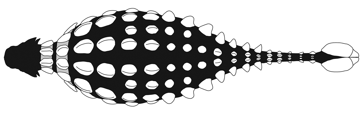 Hypothesis of osteoderm morphologies and placements in Ankylosaurus magniventris. We suggest that the cervical armour was united into more typical half rings, and provide an updated osteoderm arrangement based on preserved osteoderms in AMNH 5214, AMNH 5895, and AMNH 5866, and comparisons with related species.